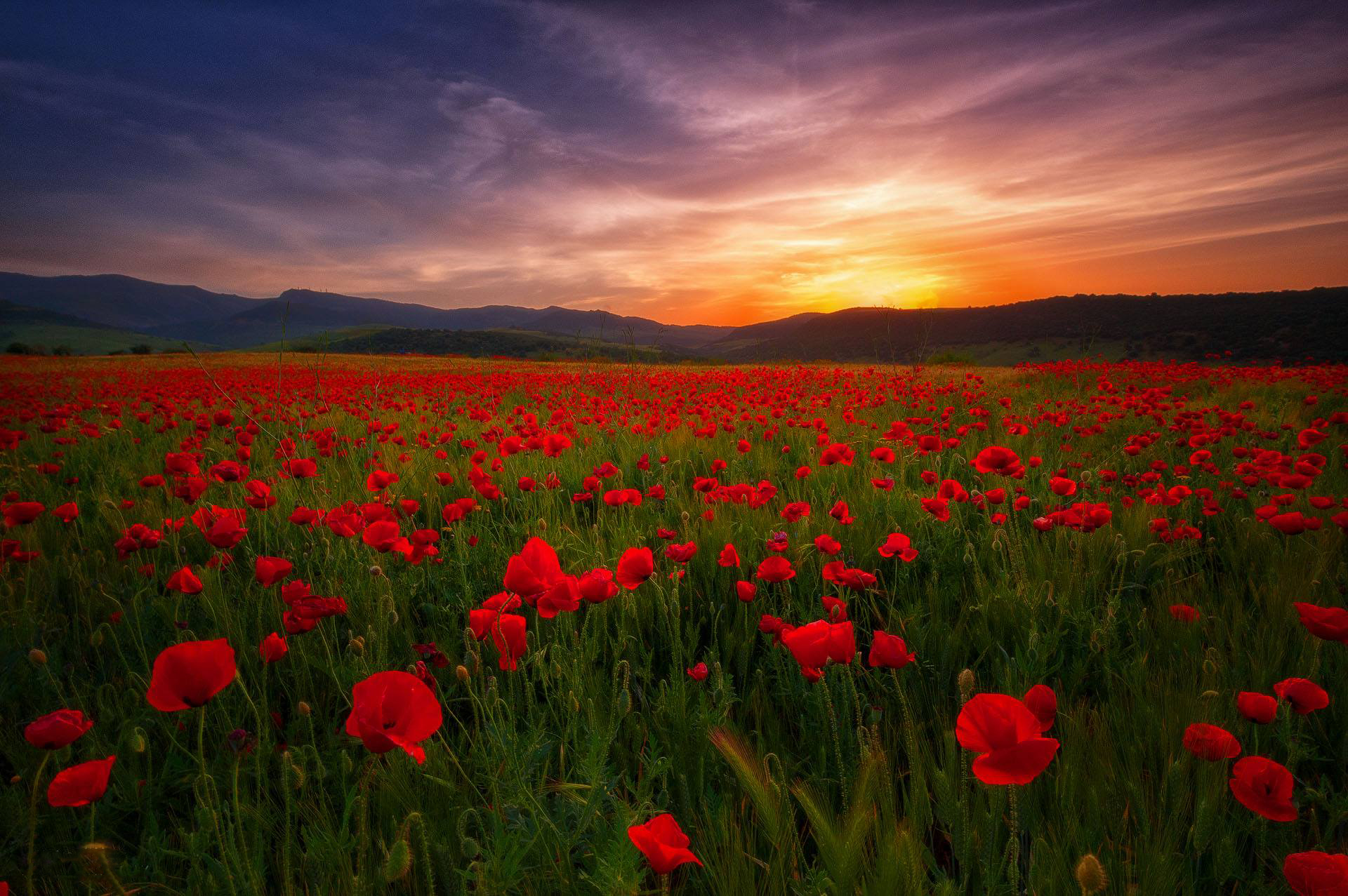 The symbol of parks of Guelma.